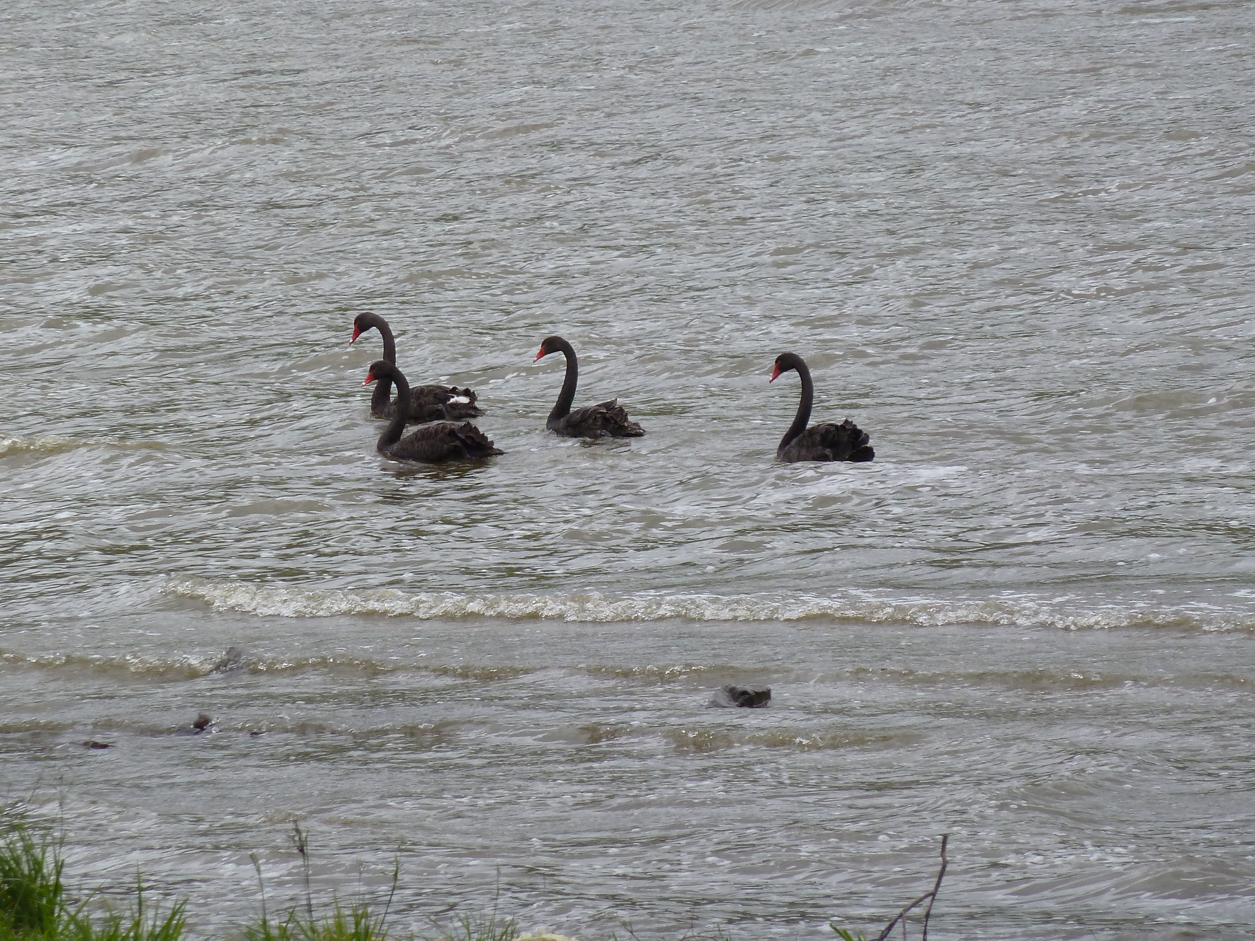 Black Swans (Cygnus atratus)swimming in Lake Forsyth, New Zealand.